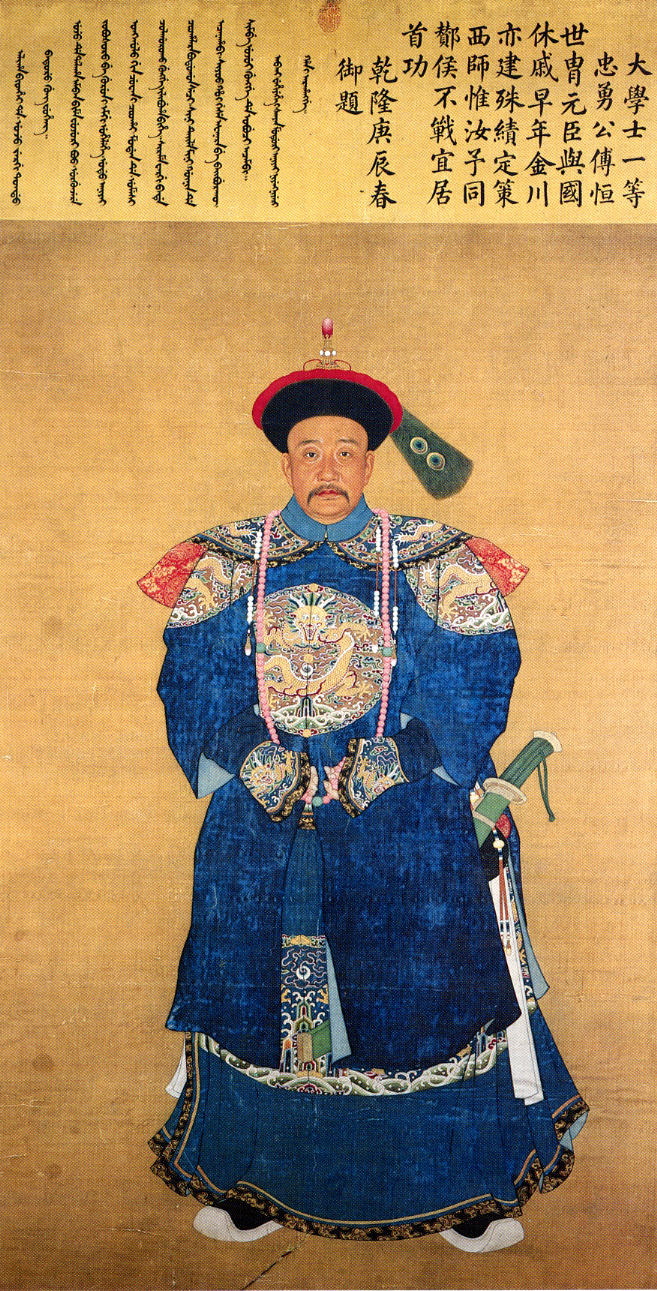 Portrait of Fu heng (傅 恆), an officer of the chinese army during Emperor Qianlong's reign